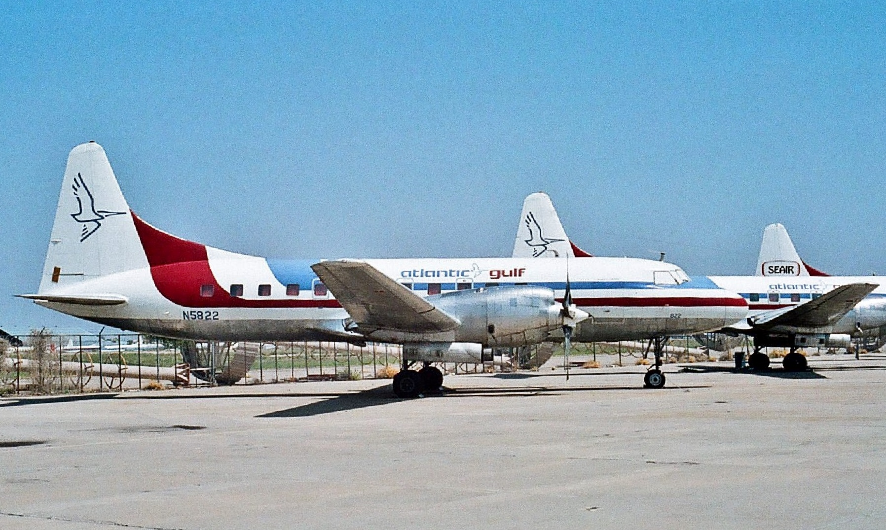 Convair CV-580 N5822 Atlantic Gulf Tucson 14.9.1987, F260-9-b